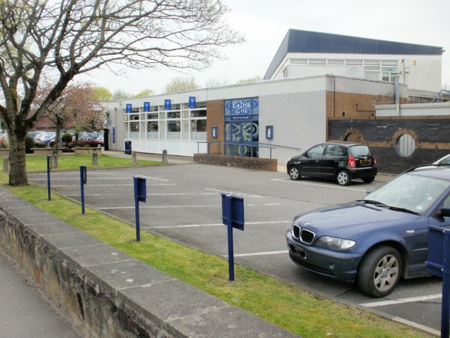 Celtic Suite restaurant at the former Colchester Avenue campus, Cardiff